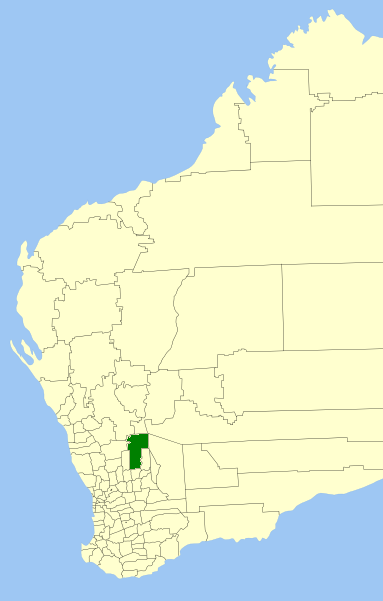 Location of the Local Government Area in Western Australia